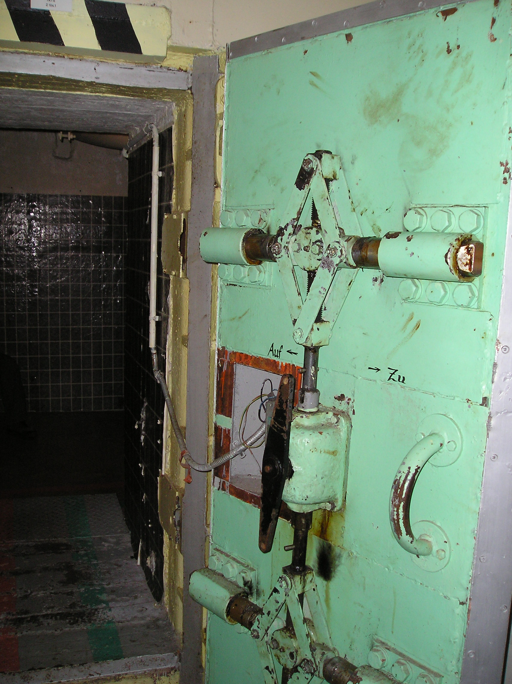 Object 17/5001 shelter in Prenden, Germany - Entrance door